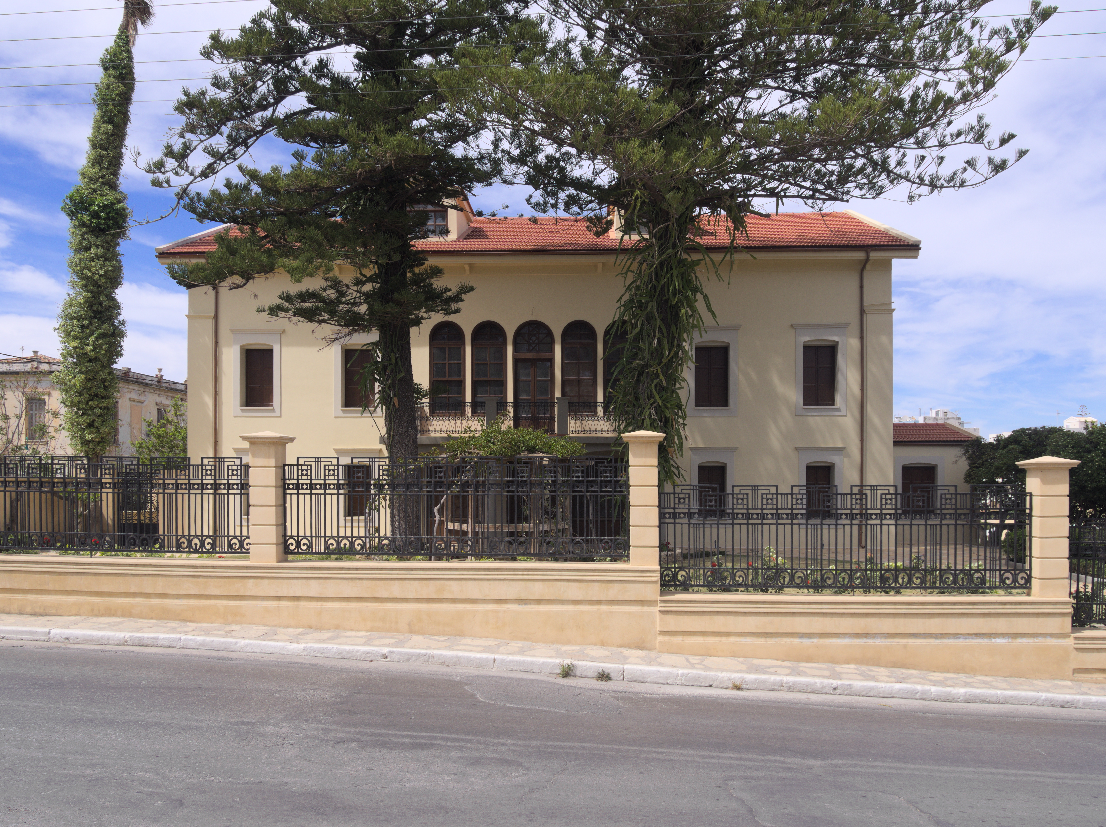 Eleftherios Venizelos Museum House of Chalepa, build in late 1870s in Chalepa region of Hania. It is the paternal house of Eleftherios Venizelos, where he lived from 1880 to 1910, and occasionally, from 1927 to 1935. In March 2002, the Greek state assumed the ownership of the Venizelos residence, and then ceded it to the Eleftherios K. Venizelos Foundation.